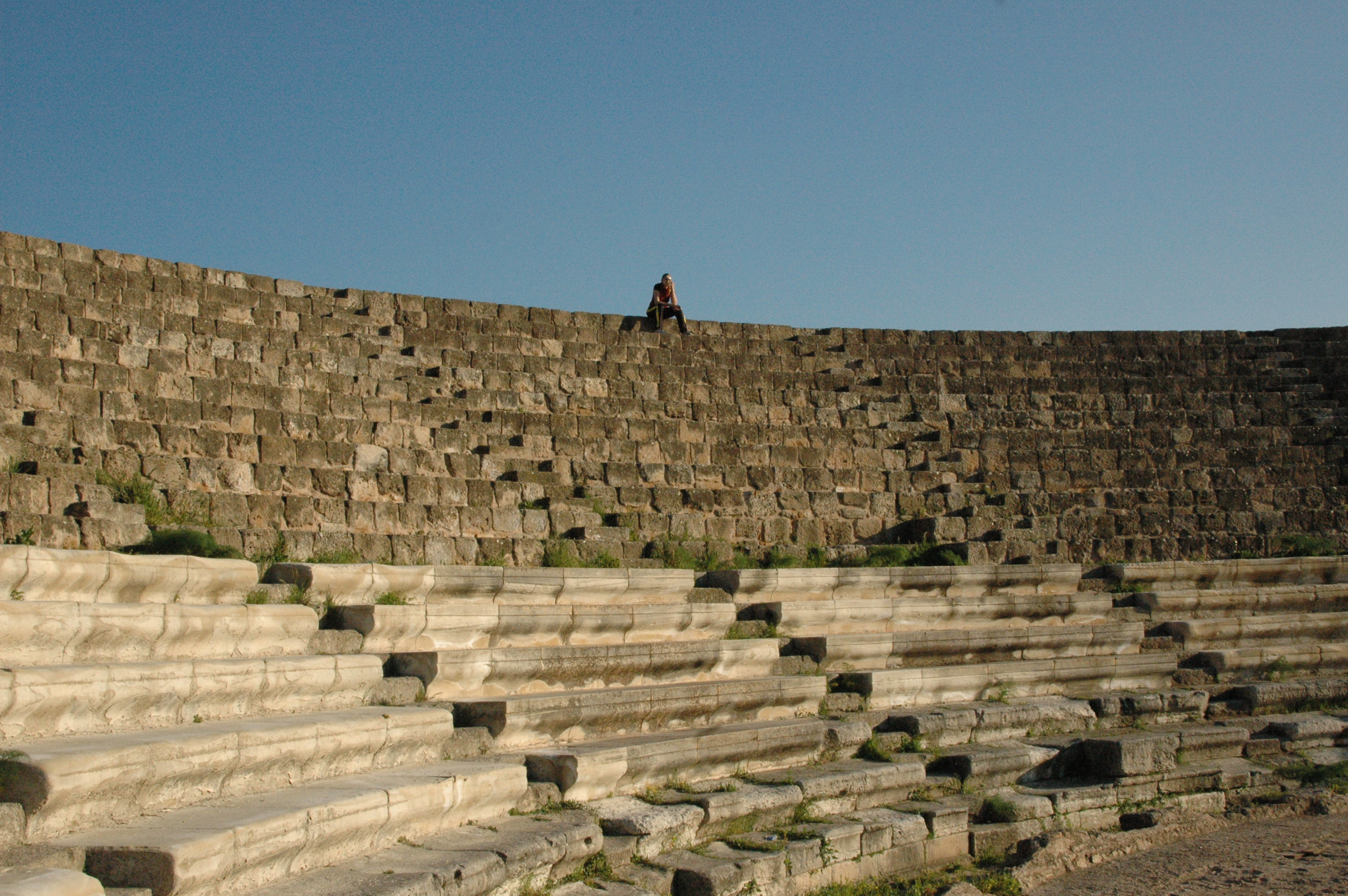 Theater of Salamis in the ancient city of Cyprus.